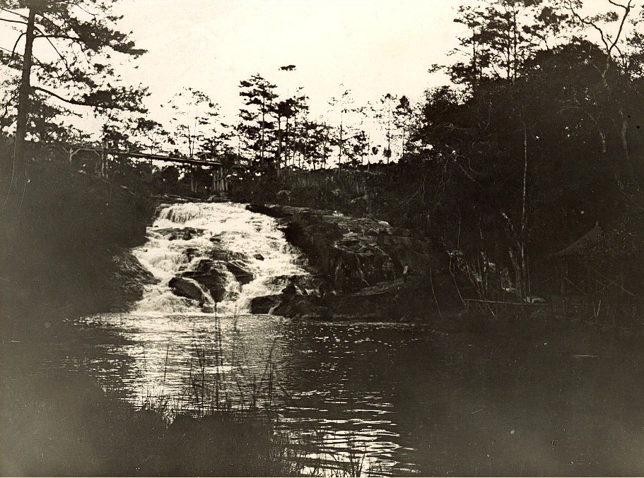 Cam Ly Waterfall